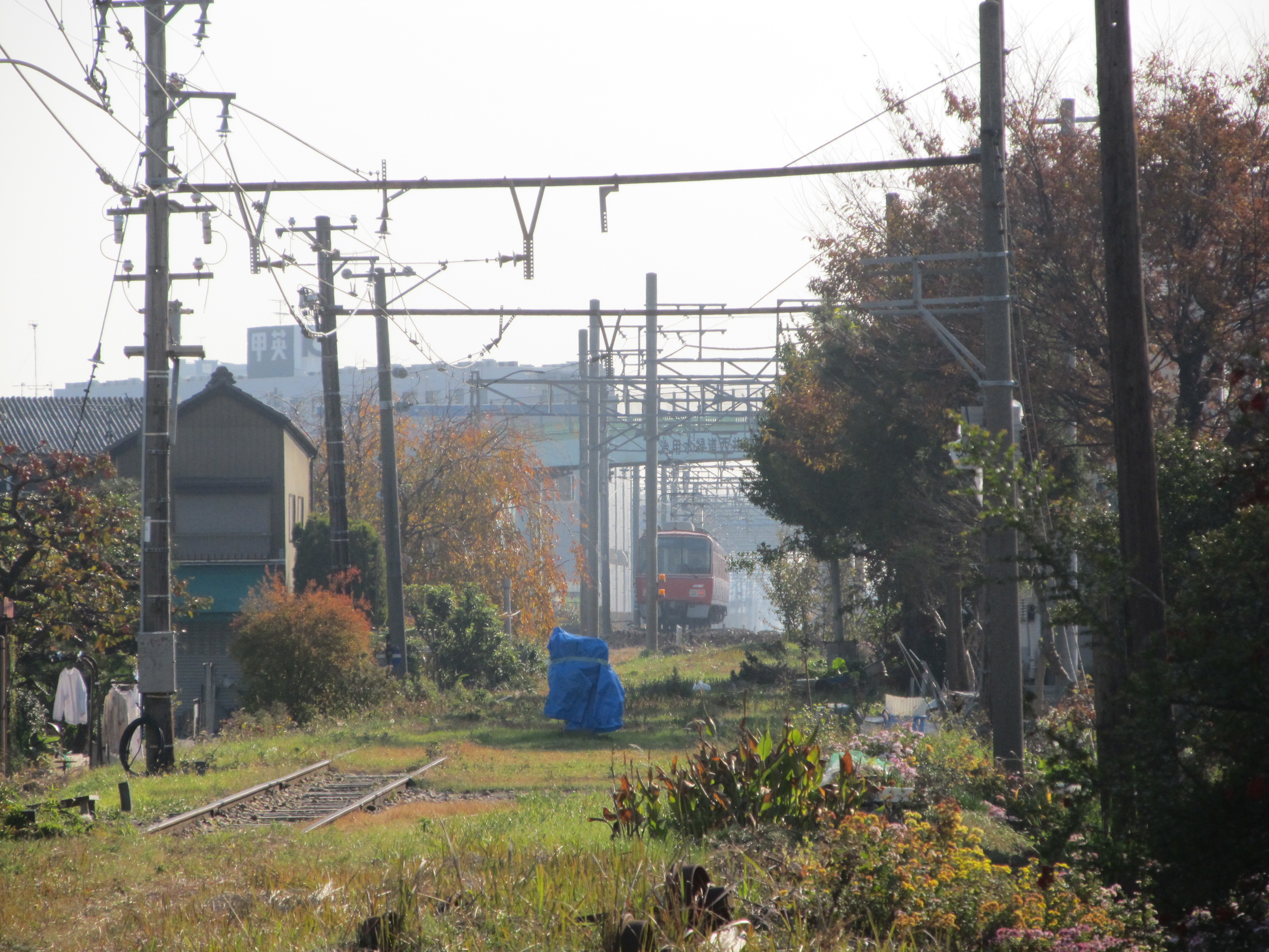 Nagoya Railroad Nagoya Main Line Chiryū Connecting Line (trace).